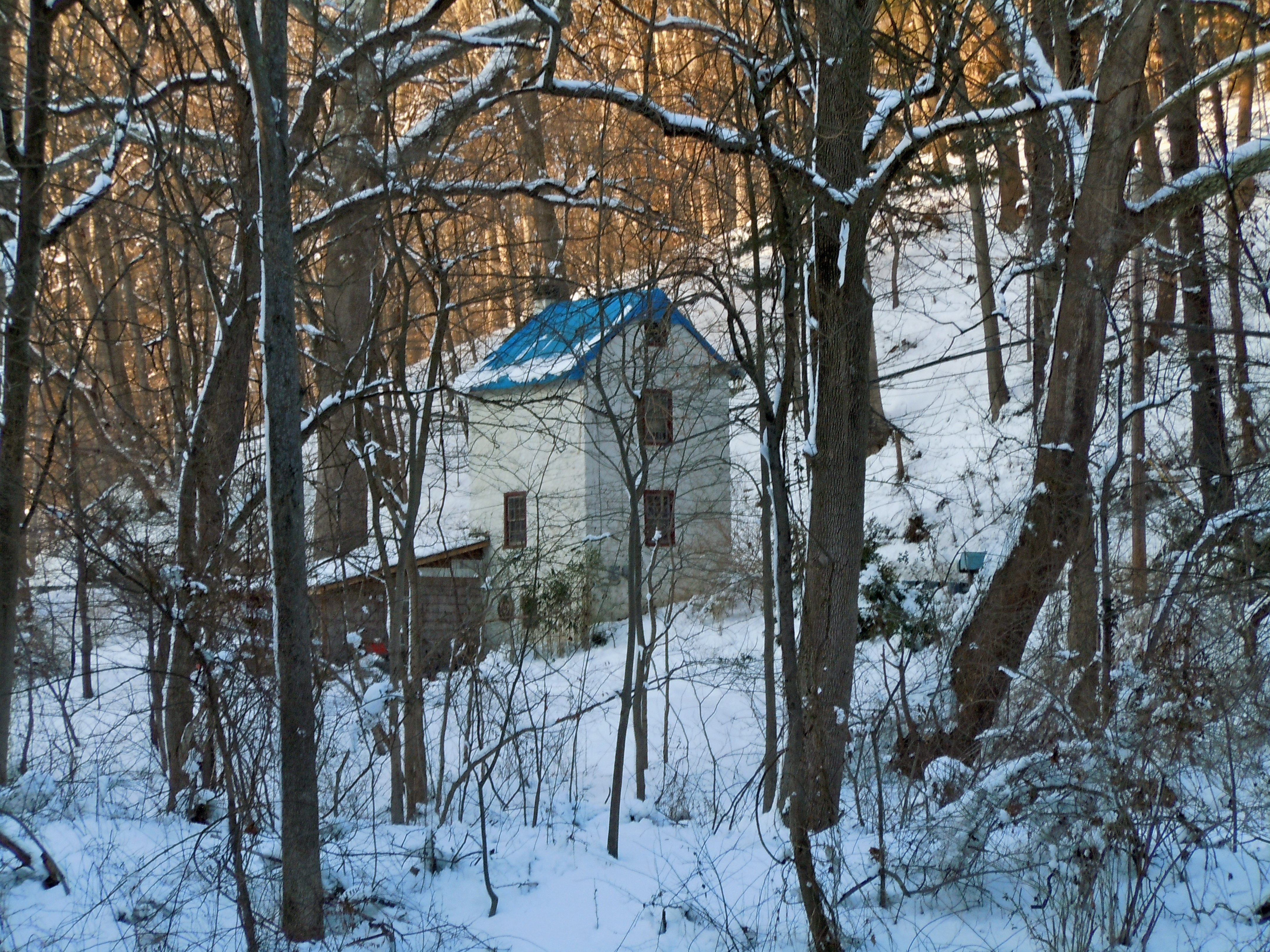 House on Bishop Hollow Road by the entrance to Ridley Creek State Park in Delaware County, Pennsylvania. This was a worker's cottage for the nearby mill.